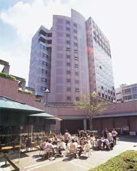 Bldg. No.2 of Osaki Campus, Rissho University.